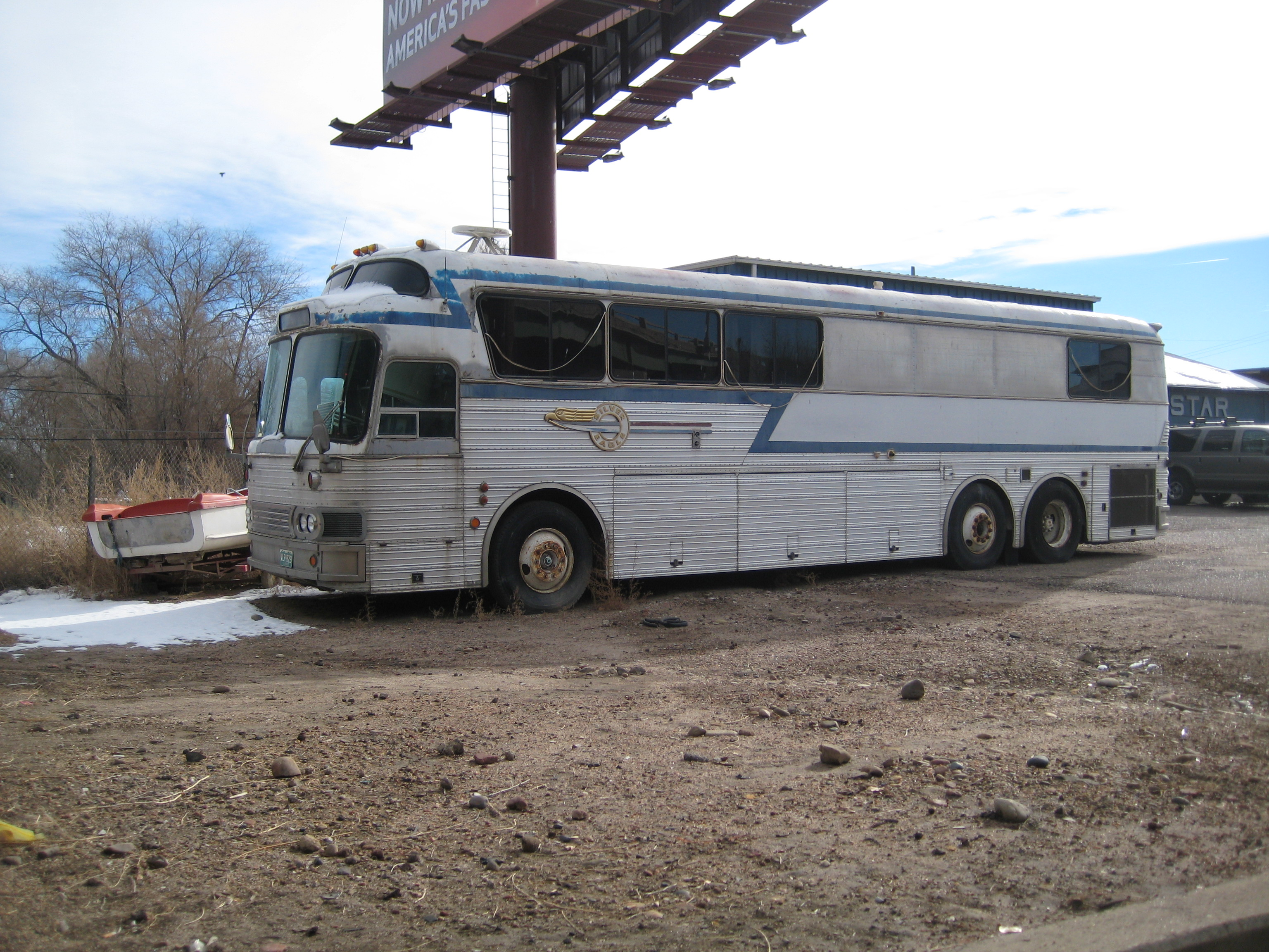 Trailways Silver Eagle in Pueblo, Colorado, next to a repair shop.